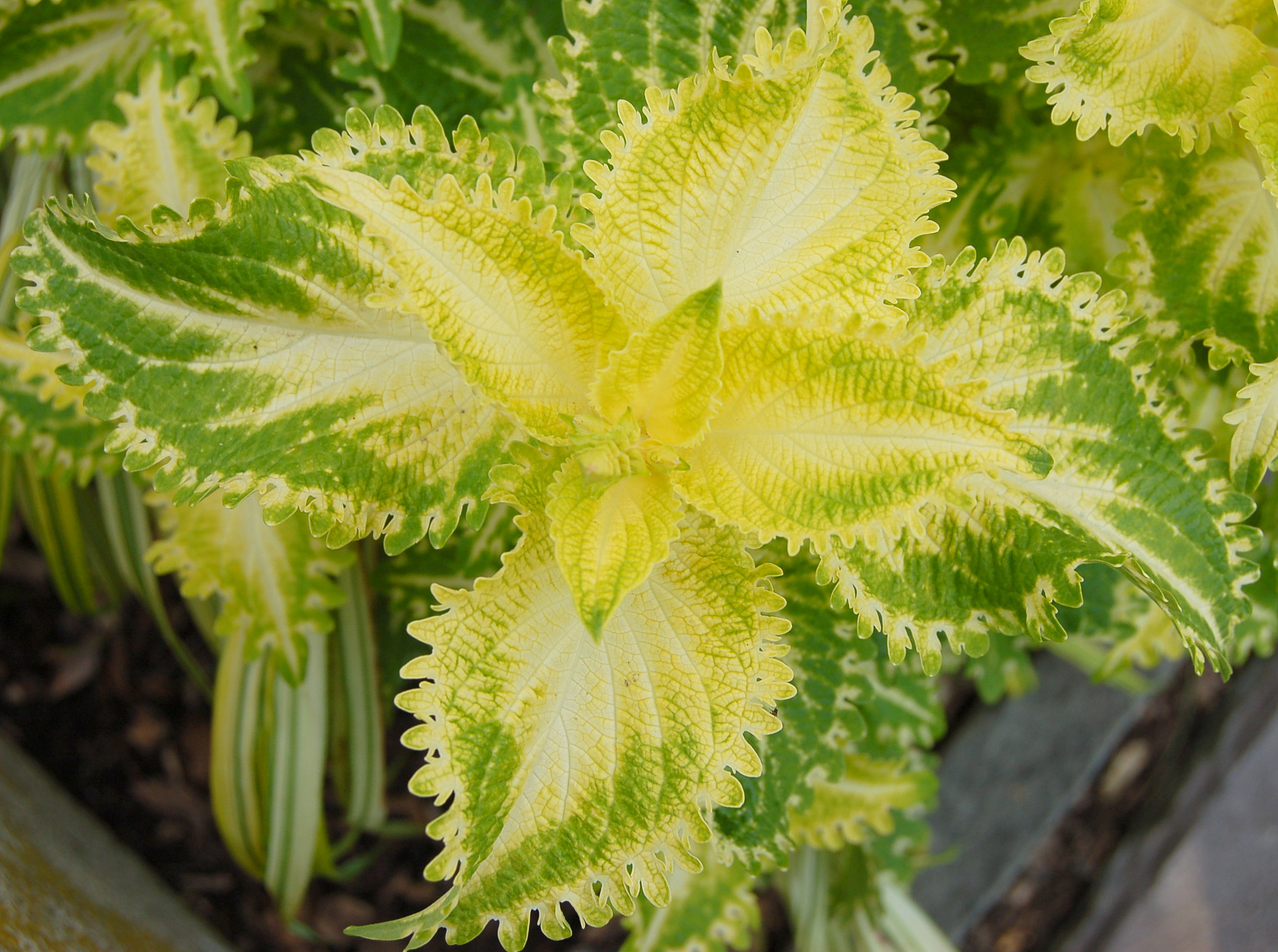 A picture of the leaves of the Solenostemon scutellarioides en (Coleus x hybridus) 'Lime Frills'. Photo taken at the Chanticleer Garden where it was identified.